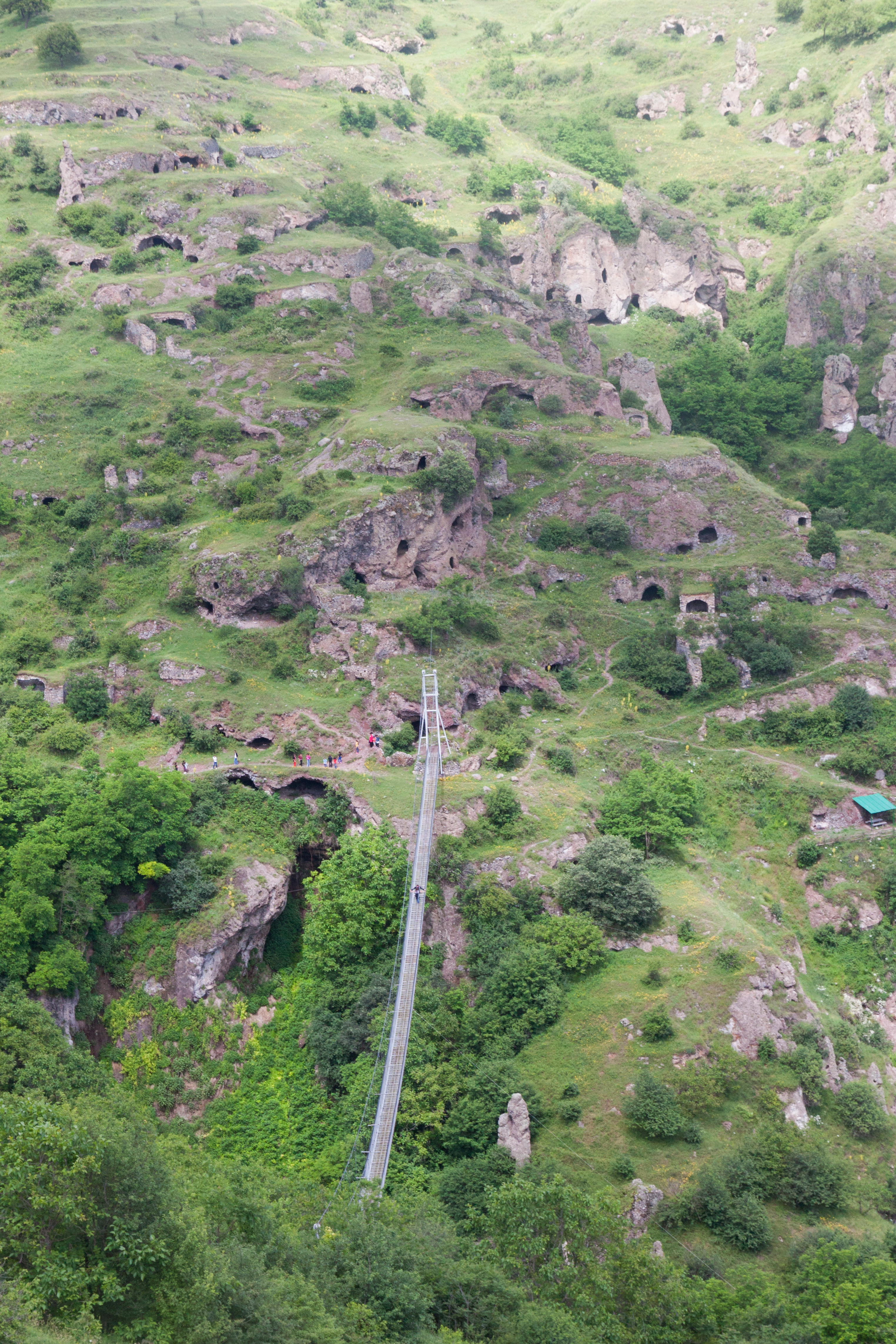 Rock formations and caves. Khndzoresk, Syunik Province, Armenia.